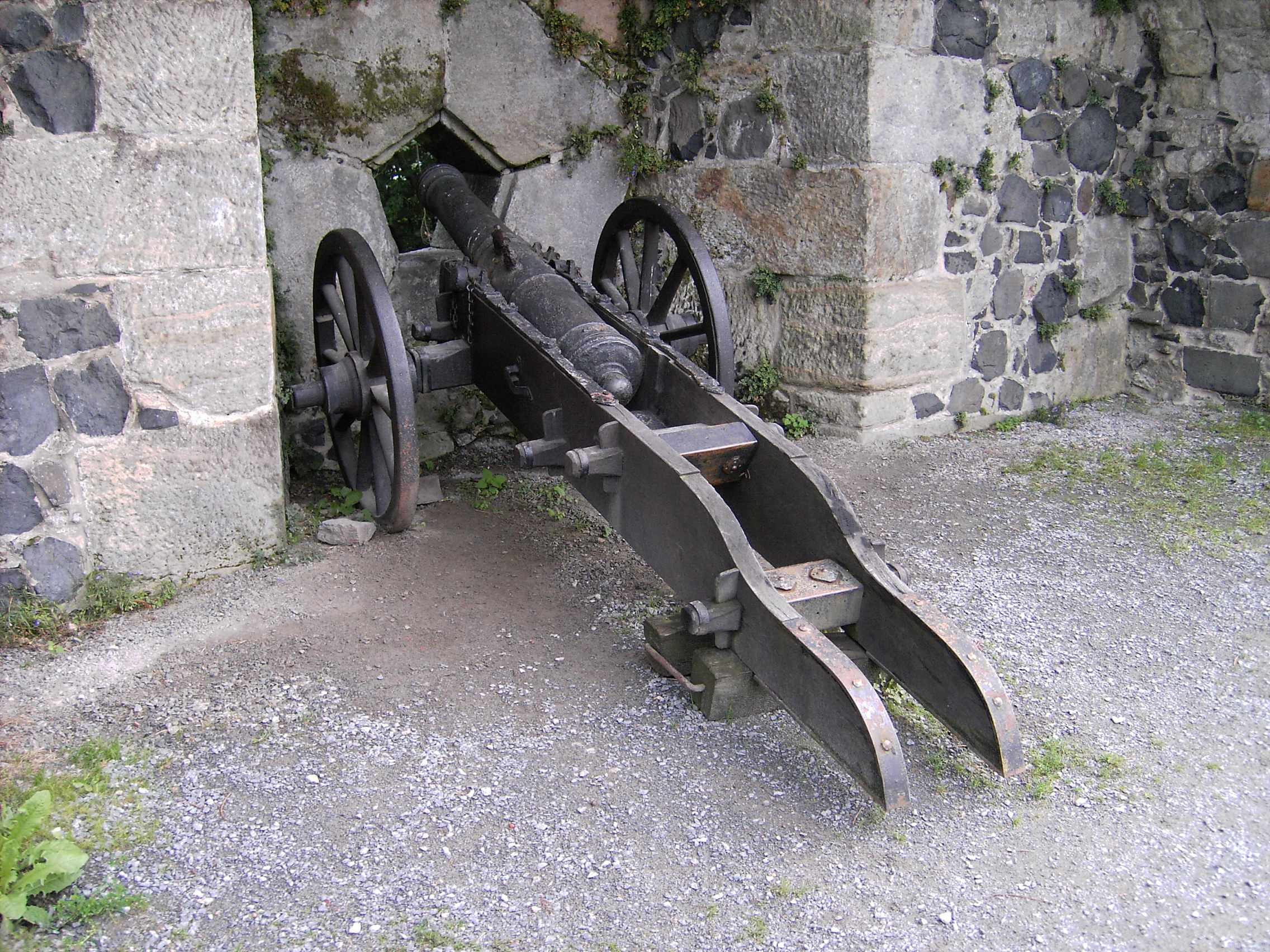 Gun at Stolpen Castle